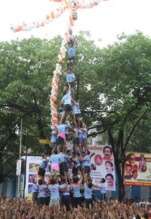 Jai Bharat Seva Sangh 2007 Human Pyramid @Dadar